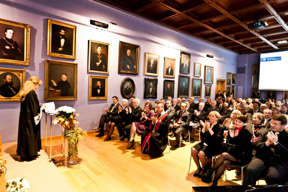 Great Hall of the Rectorate of the University of Zagreb